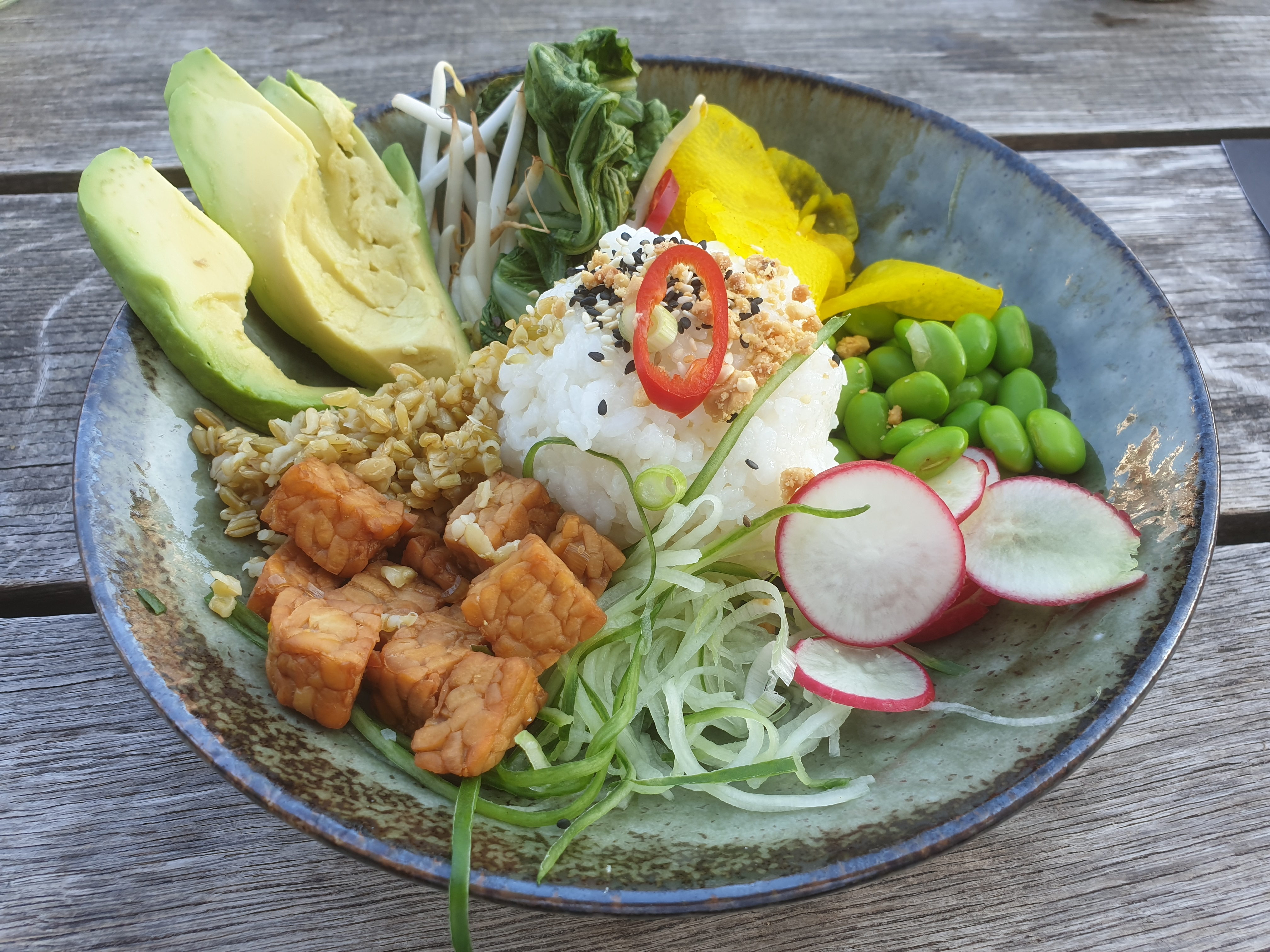 Picture of a Buddha Bowl as ordered in a restaurant (Lot & De Walvis, Leiden)